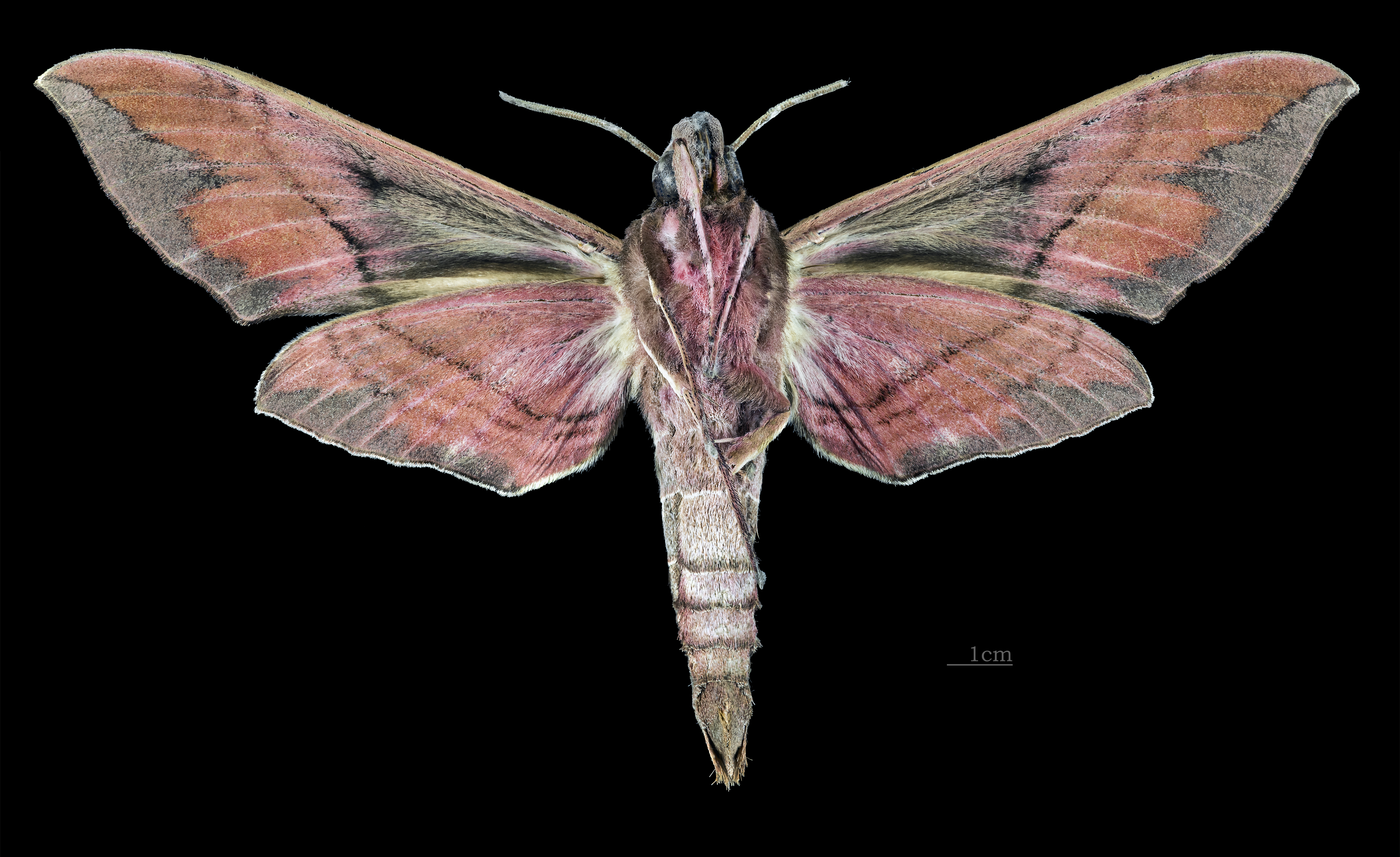 Eumorpha neuburgeri - △ Ventral side Collection of the Mathematician Laurent Schwartz